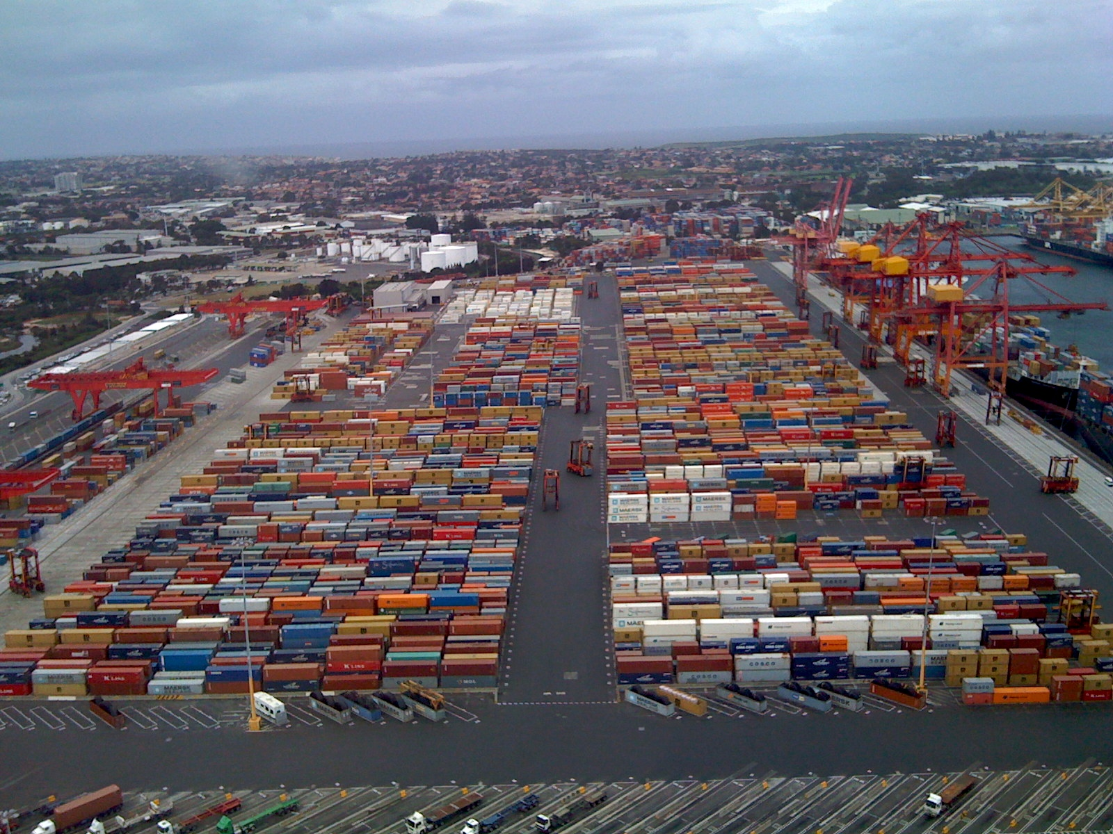 Sydney container port by air.